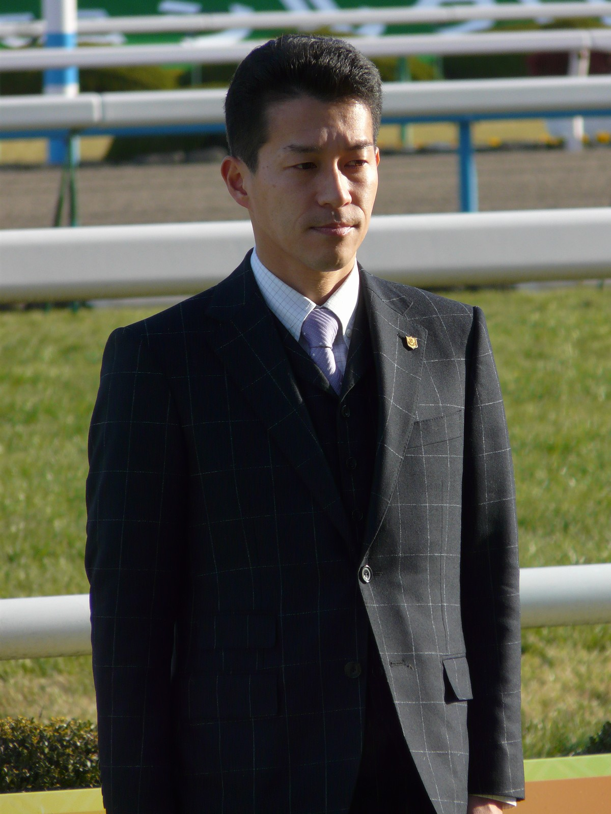 Masashi-Okuhira20100207